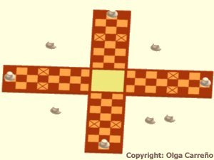 Pachisi board